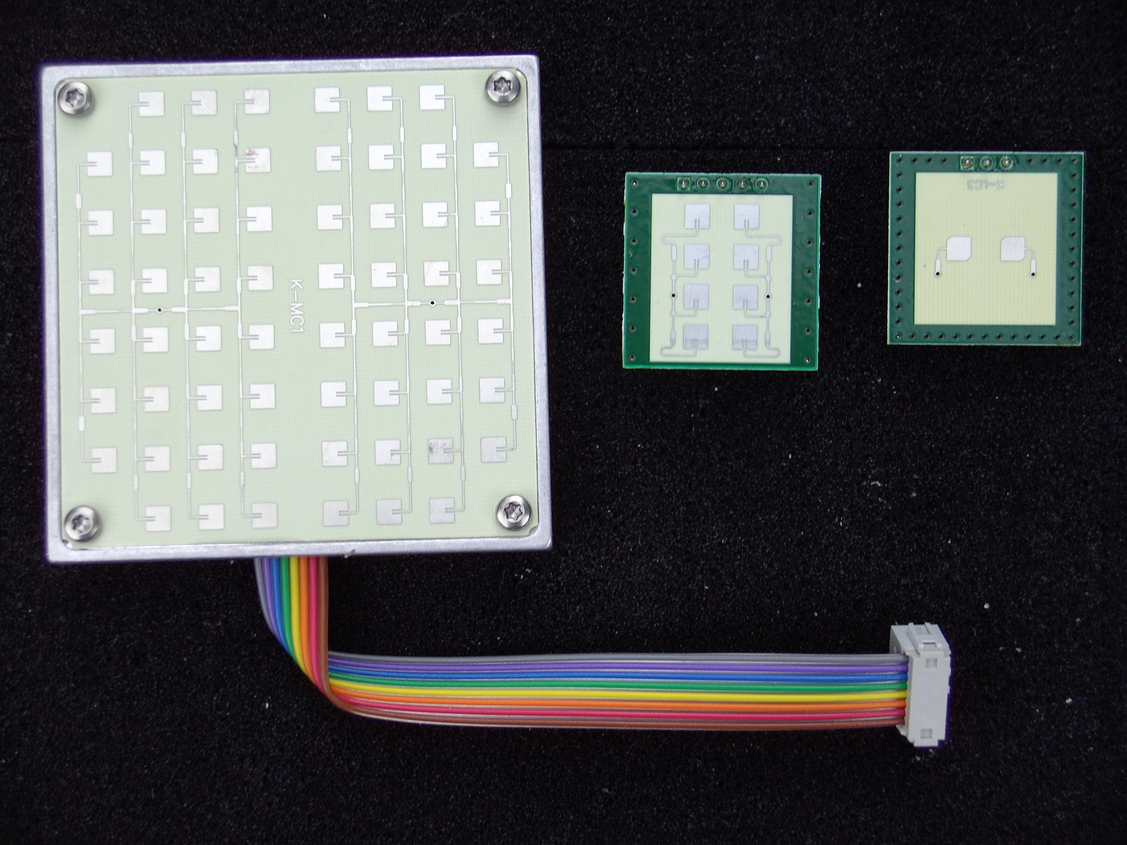 different Doppler-Radarsensor modules (CW- and FMCW radar) oprerating at 24 GHz (K-Band)